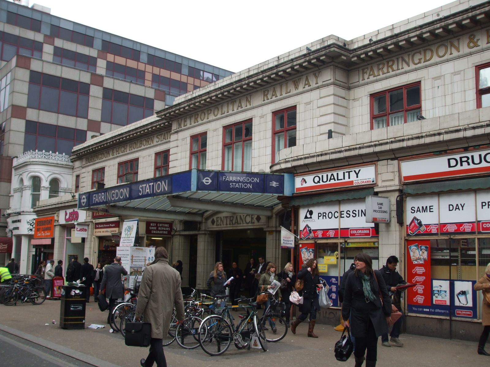 Farringdon station building, served by both London Underground and the Thameslink service (operated by First Capital Connect)